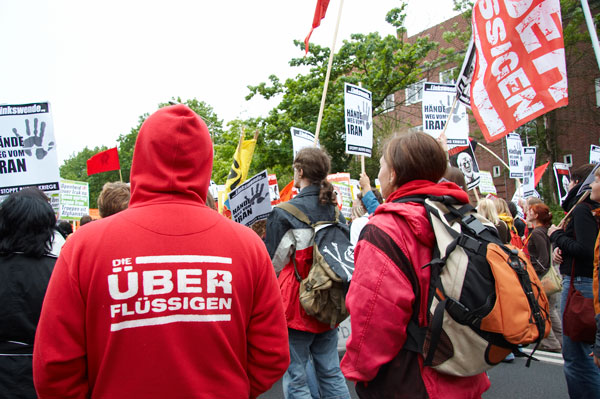 Rostock, June 2nd 2007: Guy in a hoodie by "Die Überflüssigen" is protesting against the meeting of the Group of Eight in Heiligendamm 2007